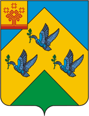 Novocheboksarsk (Chuvashia), coat of arms